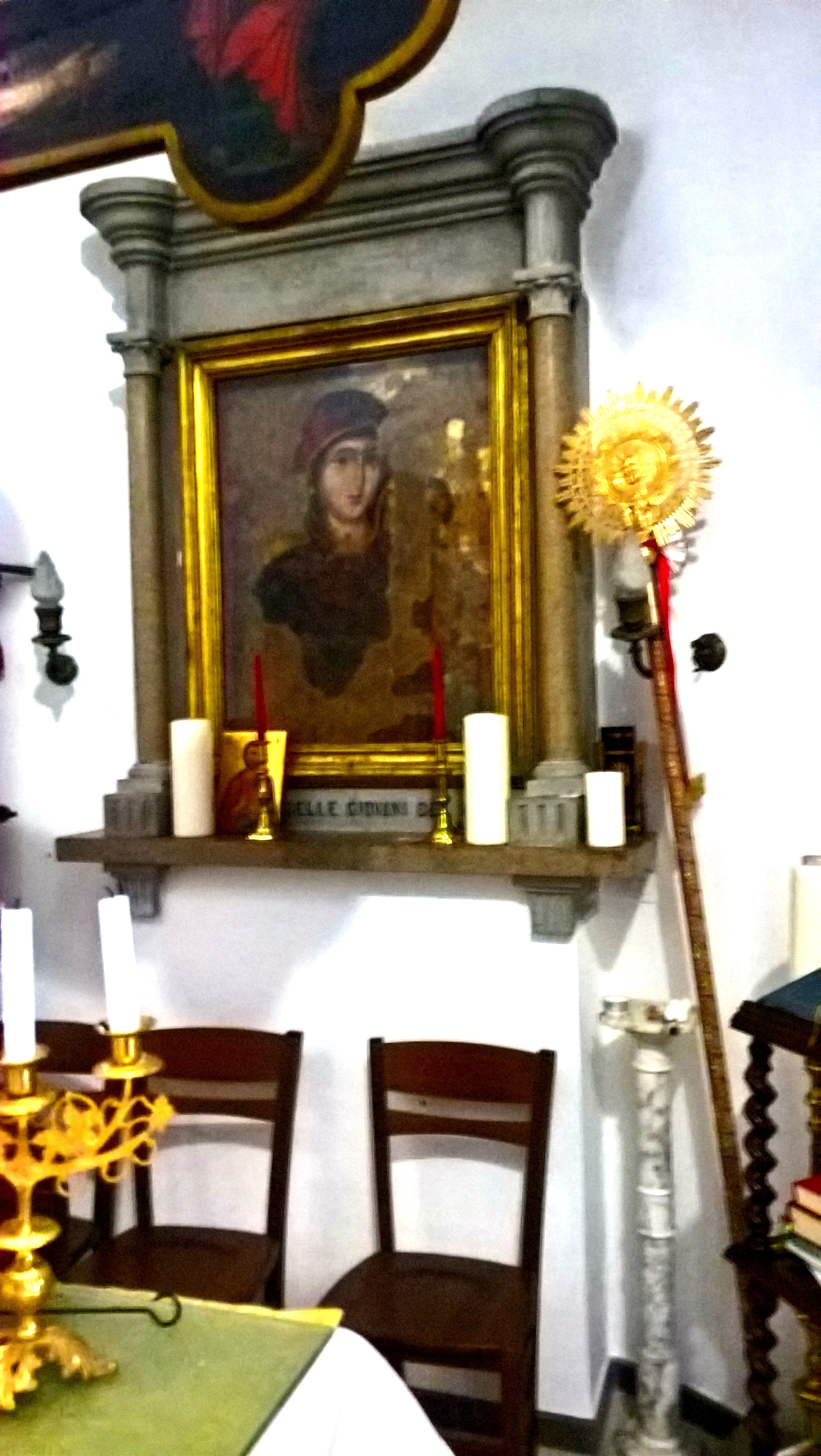 Hodegetria (Original) in Bema in the Chiesa Santa Maria Assunta in Villa Badessa, 15th century